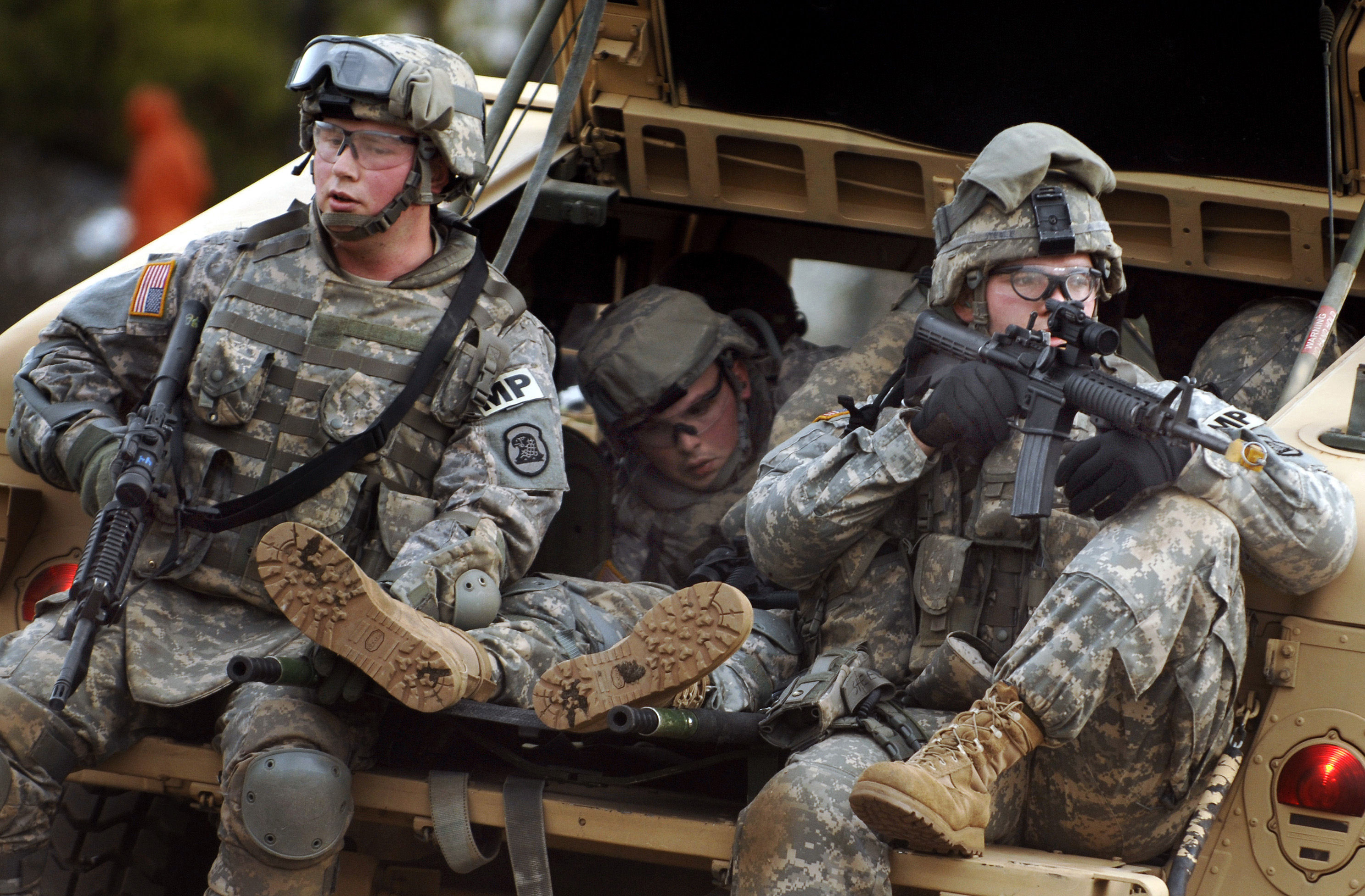 U.S. Army Spc. Nathean Hommer and Sgt. Willard Garmoe provide security from the tailgate of a Humvee as they extract a simulated casualty during a military operations on urban terrain exercise as part of mobilization training at Fort Dix, N.J., on Jan. 10, 2008. Soldiers from the 186th Military Police Company, Iowa Army National Guard, are receiving training from the 72nd Field Artillery Brigade for their upcoming deployment. DoD photo by Staff Sgt. Russell Lee Klika, U.S. Army. (Released) 080110-A-0559K-208.jpg